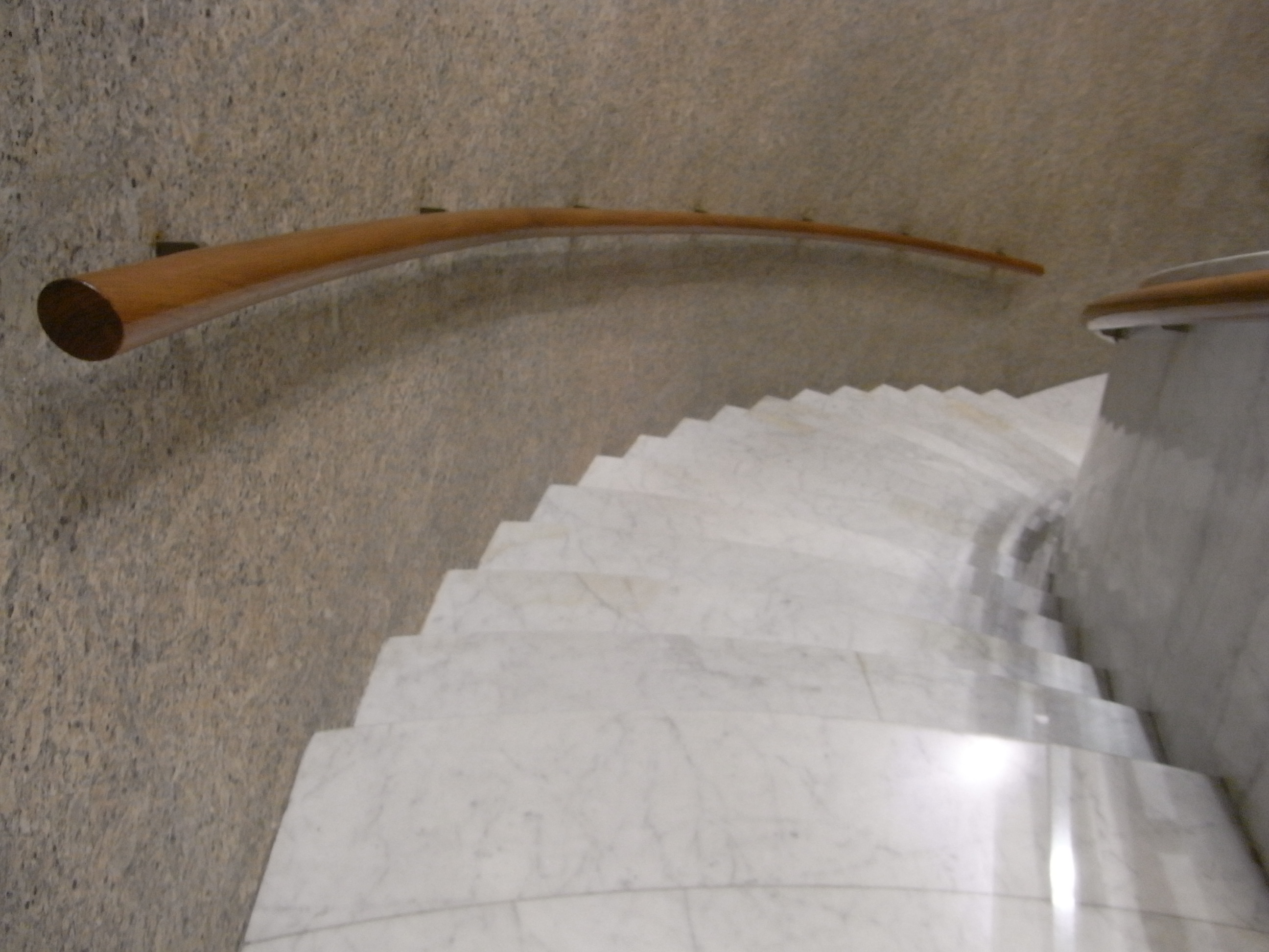 中環 娛樂行 白色雲石地zh:樓梯